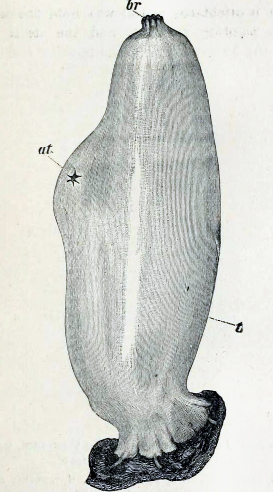 Ascidia mentula Müller, 1776; Ascidiidae; at) atrial aperture; br) branchial aperture; t) test